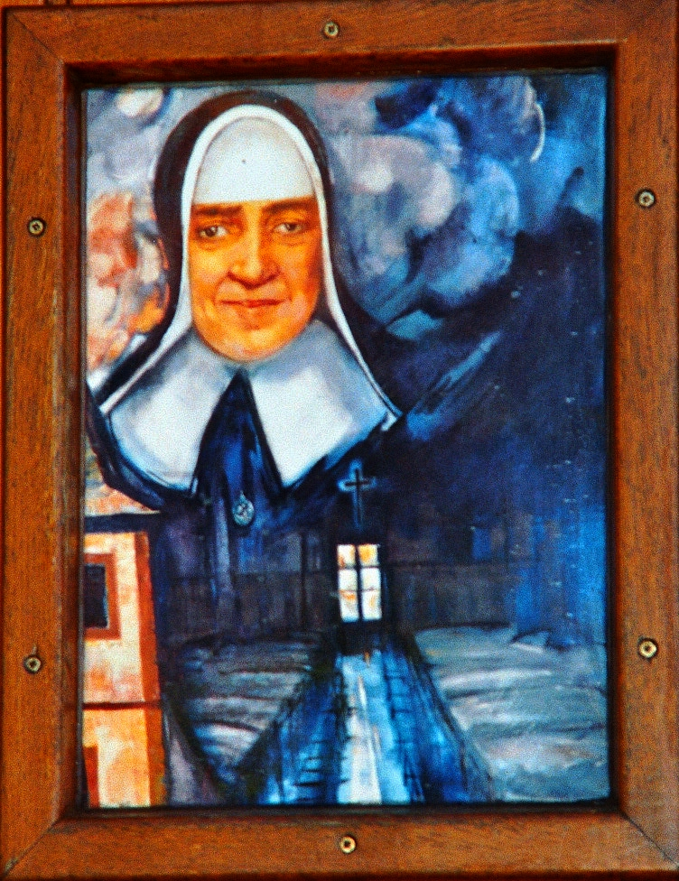 Maria Euthymia painting by artist Leonard Klosa. Reproduction at one of the stations of the Maria Euthymia commemorative path (Maria-Euthymia-Gedenkweg) in Hopsten-Halverde, Kreis Steinfurt, North Rhine-Westphalia, Germany.